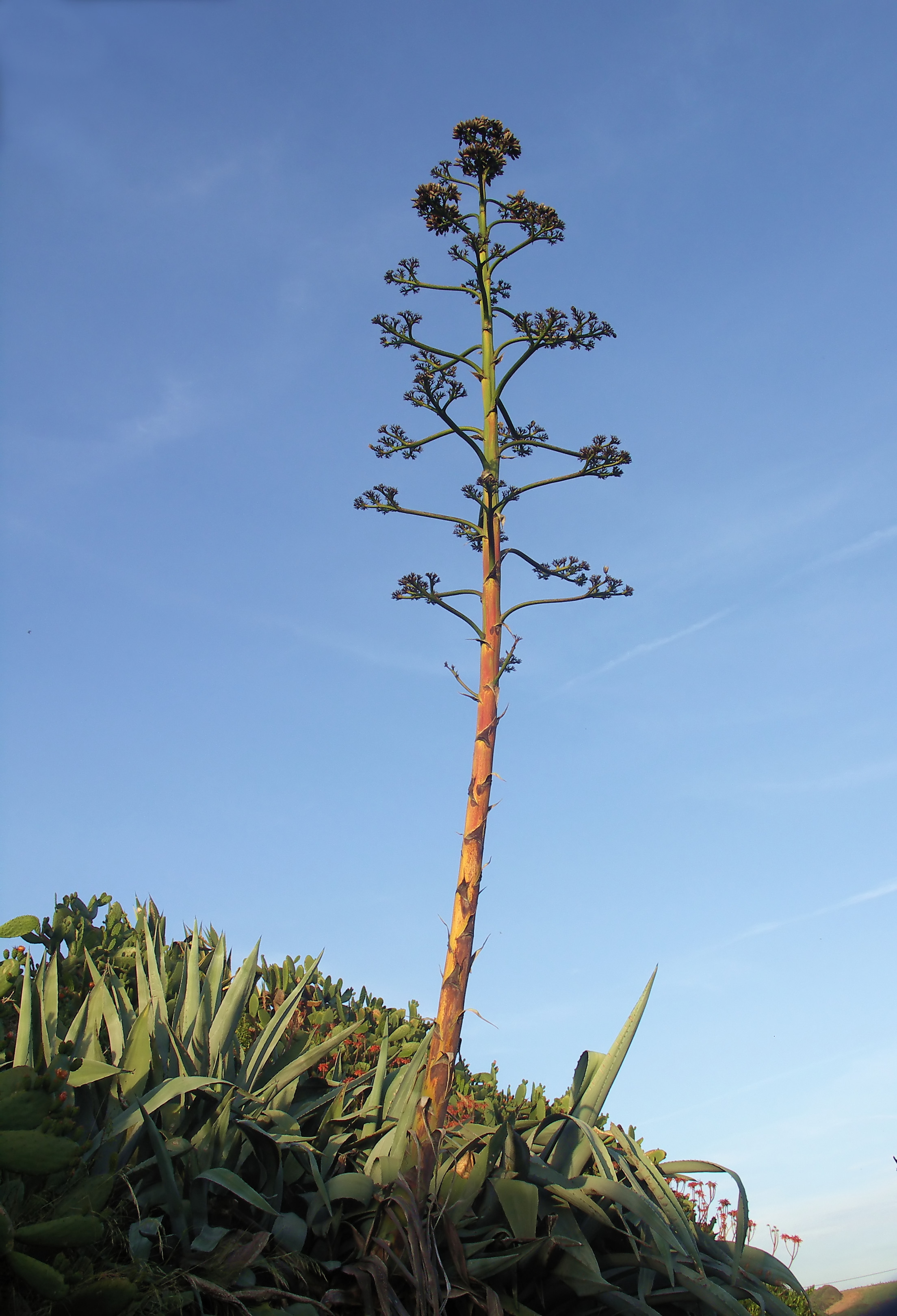 Flower of Agave (Agave americana).